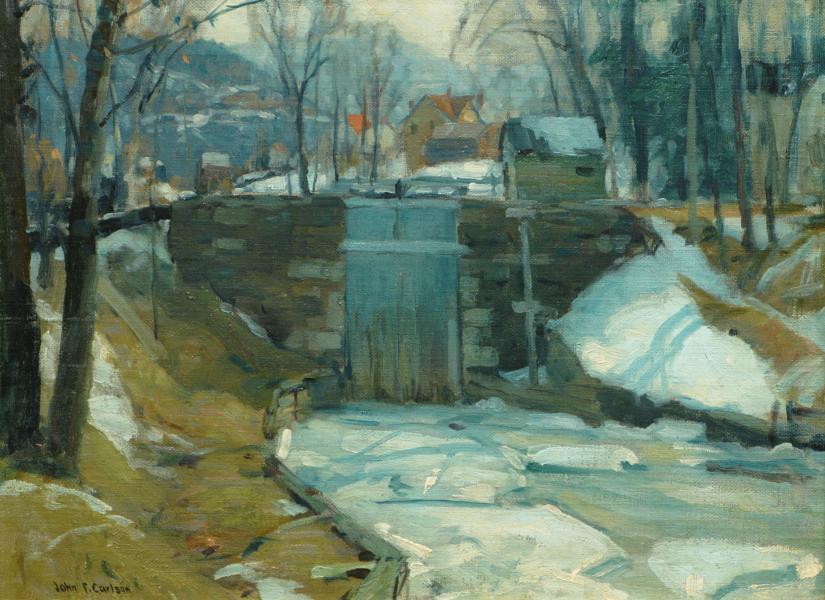 Ice-Bound Locks by John Fabian Carlson, oil on canvas board, 12 x 16 inches